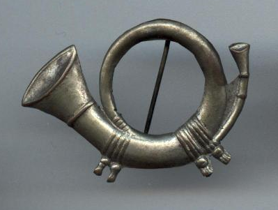 Hunting horn.